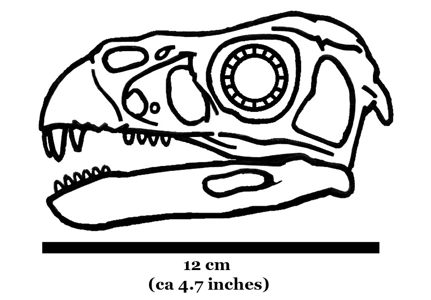 Illustration of the skull from the oviraptorian dinosaur Incisivosaurus. Unlike other oviraptorosaurians, it had teeth. References. Skull image at digimorph, with 1 cm. scale bar. Detailed illustration of the skull. Photo of the real skull.